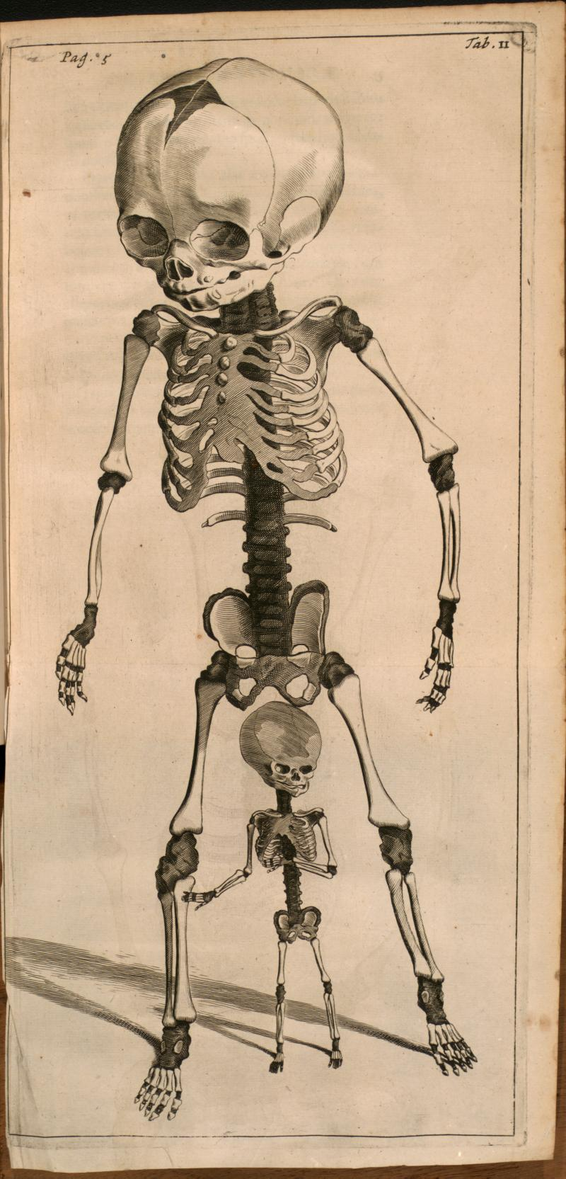 Illustration from Theodor Kerckring: Spicilegium anatomicum.Fetal skeleton, infant skeleton. Fontanelles shown. Anterior view.